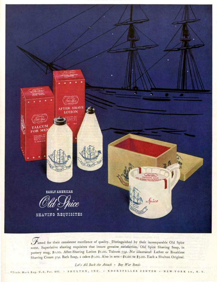 1944 advertisement for the Old Spice Shaving Soap in a pottery mug, Old Spice After-Shaving Lotion, Old Spice Talcum, Old Spice Brushless Shaving Cream, and Old Spice Bath Soap.